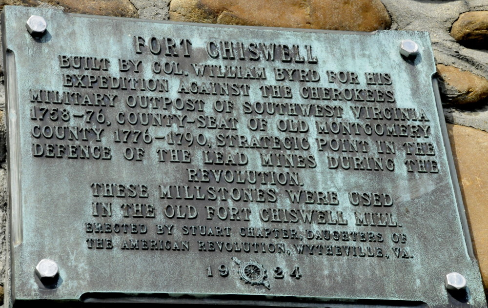 Plaque located on one of three sides on the Ft. Chiswell historic marker erected by local DAR chapters in 1924. This plaque is about the history of Ft. Chiswell.